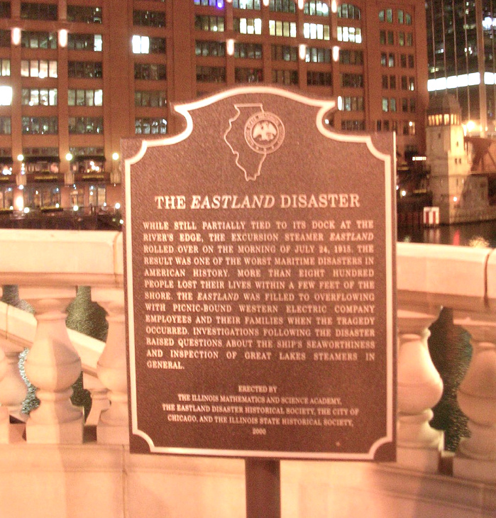 Plaque for the Eastland Disaster